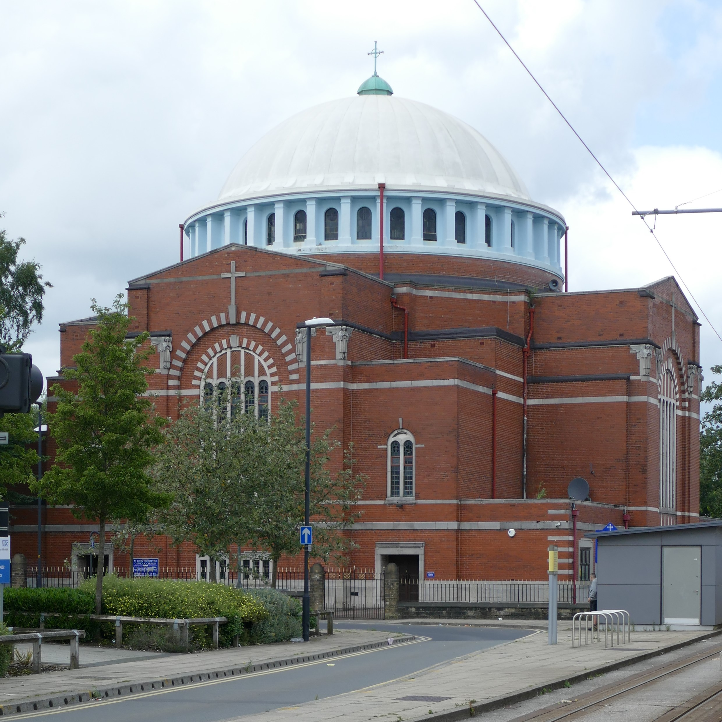 St John the Baptist Church, Rochdale